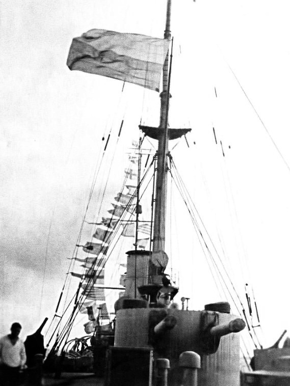 Память меркурия флаг украины 1917